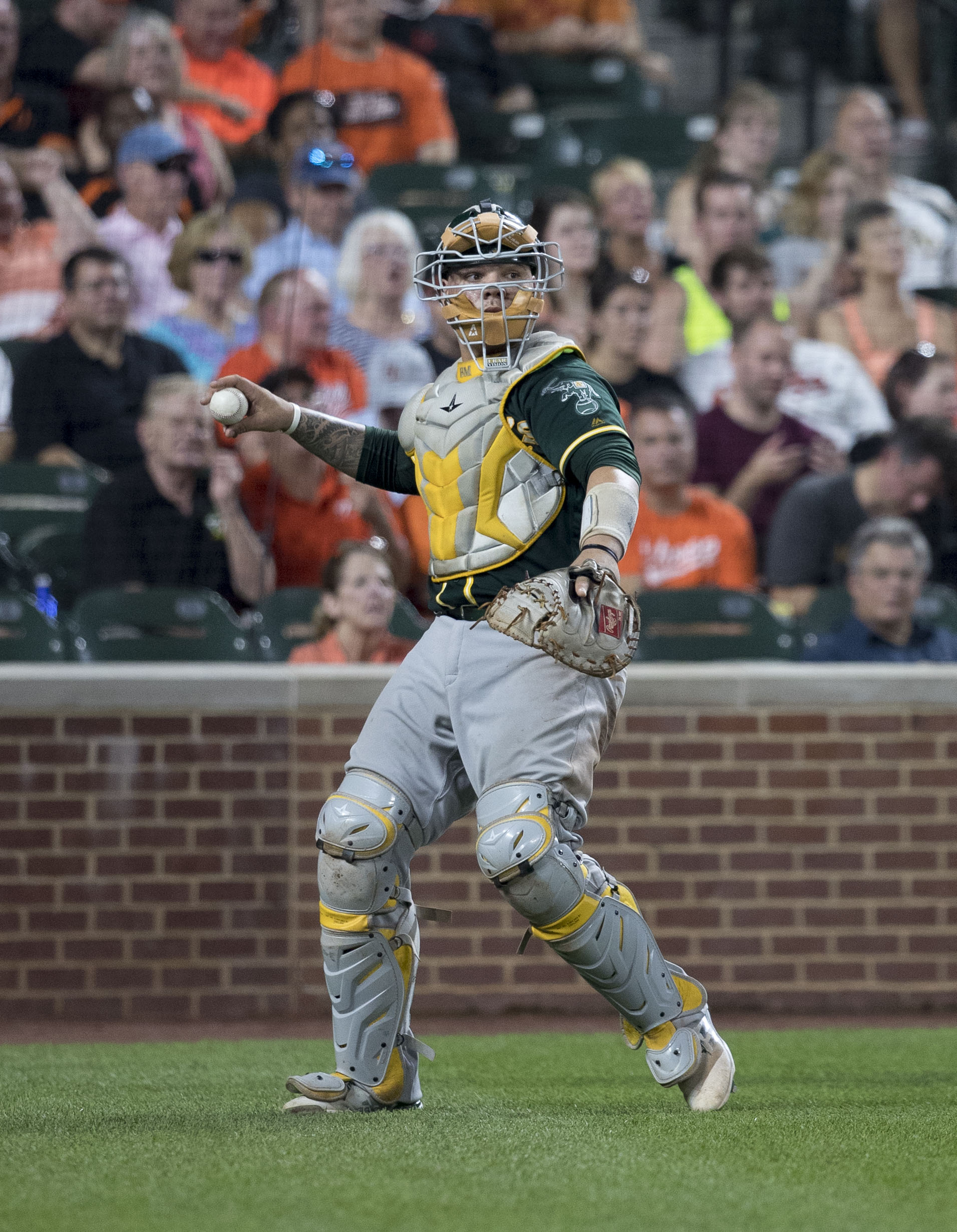 A's at Orioles 8/22/17